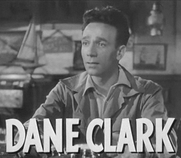 Cropped screenshot of Dane Clark from the trailer for the film Whiplash